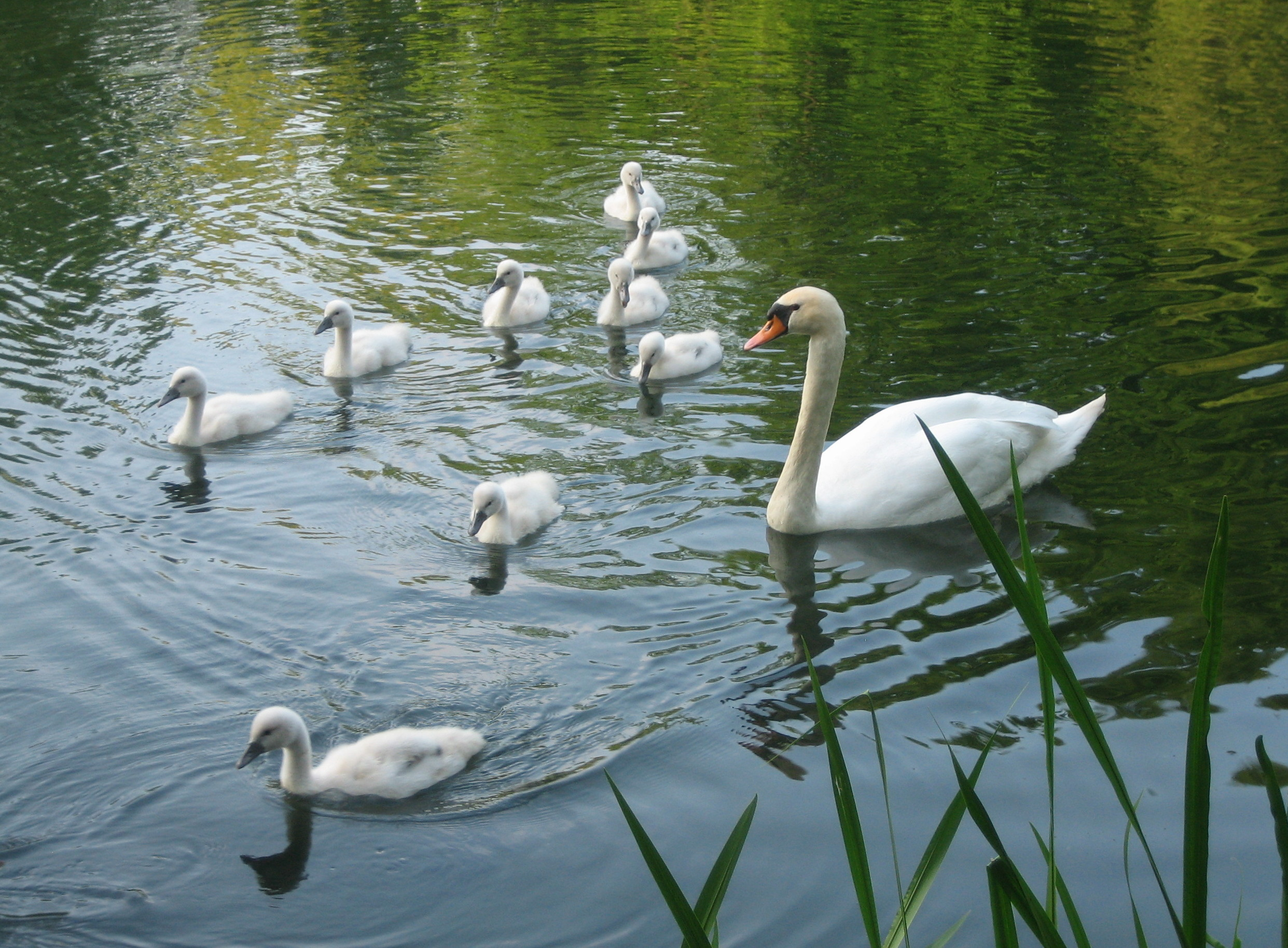 The picture shows mute swan mother with 9 children, hatched 25.04.2008, in Düsseldorf (Germany) Volksgarten